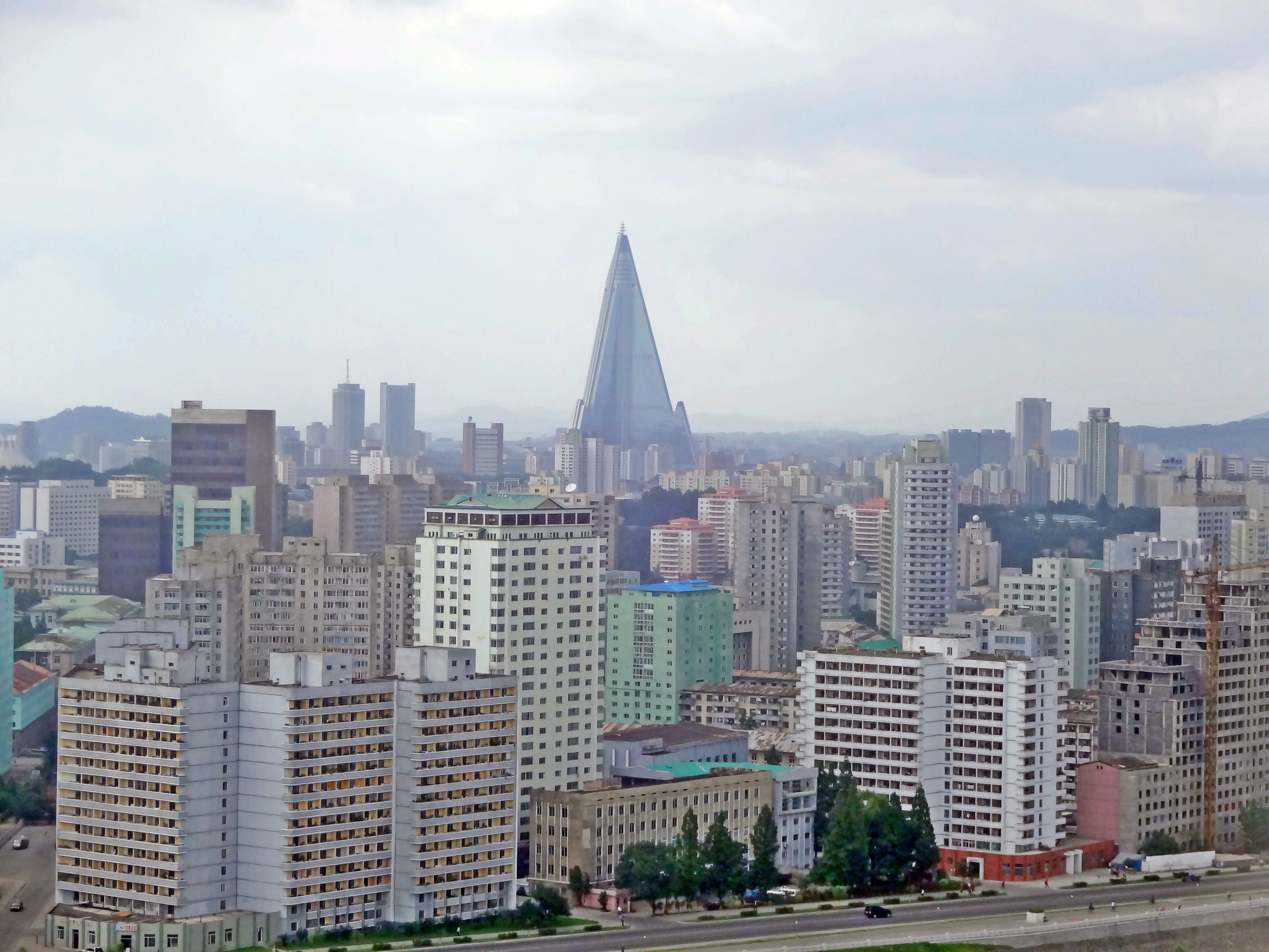 View from Yanggakdo International Hotel, Pyongyang in northern direction towards Ryugyong Hotel